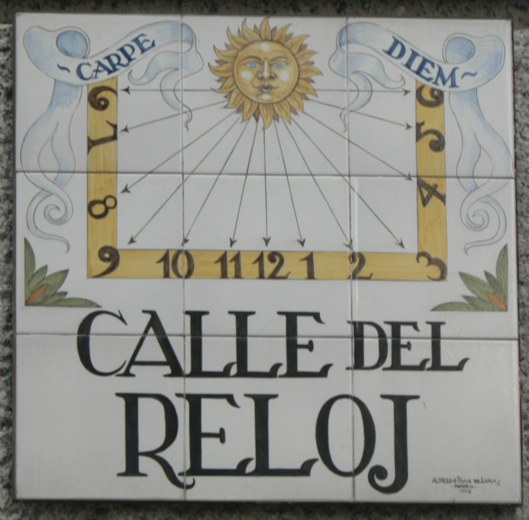 Sign of Calle del Reloj (street, Centro district) in Madrid (Spain).